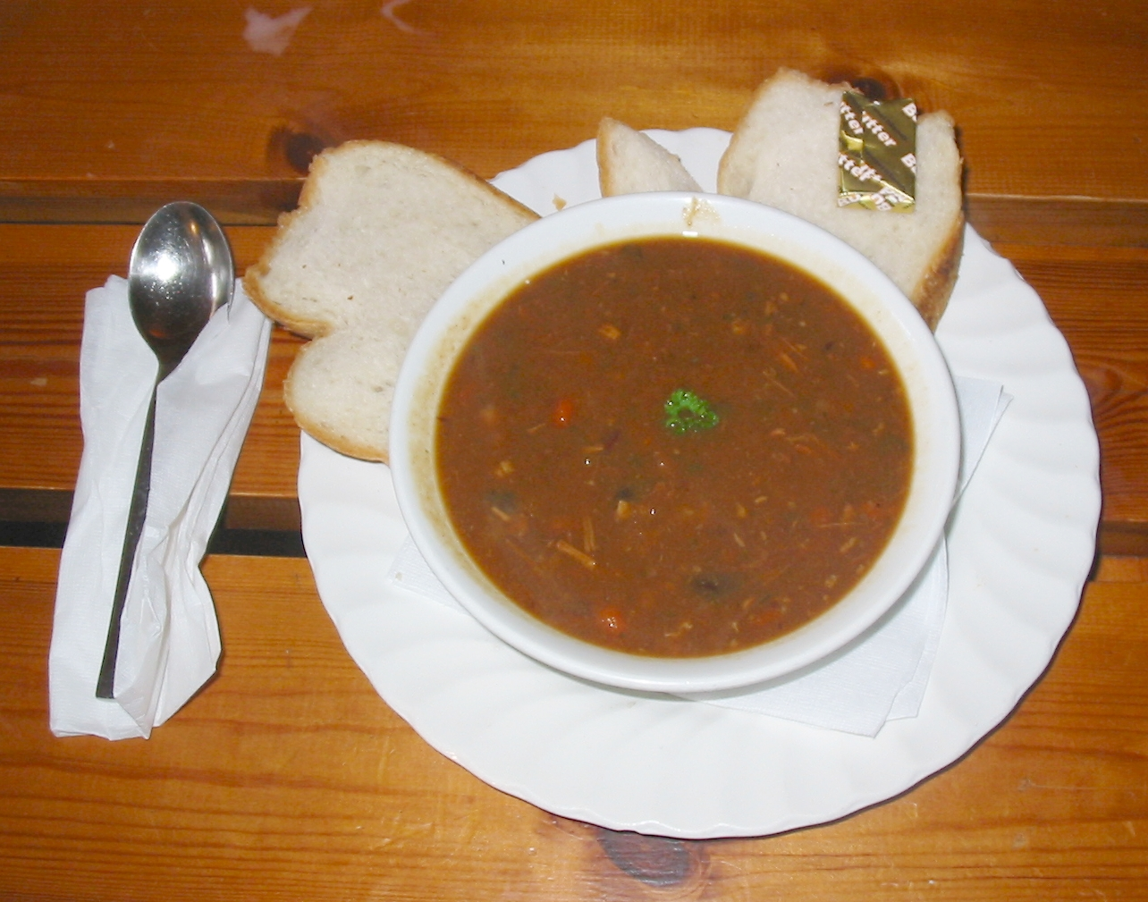 Pais au fou - bean crock, a traditional form of cassoulet made from slow-cooked pork and beans in Jersey.